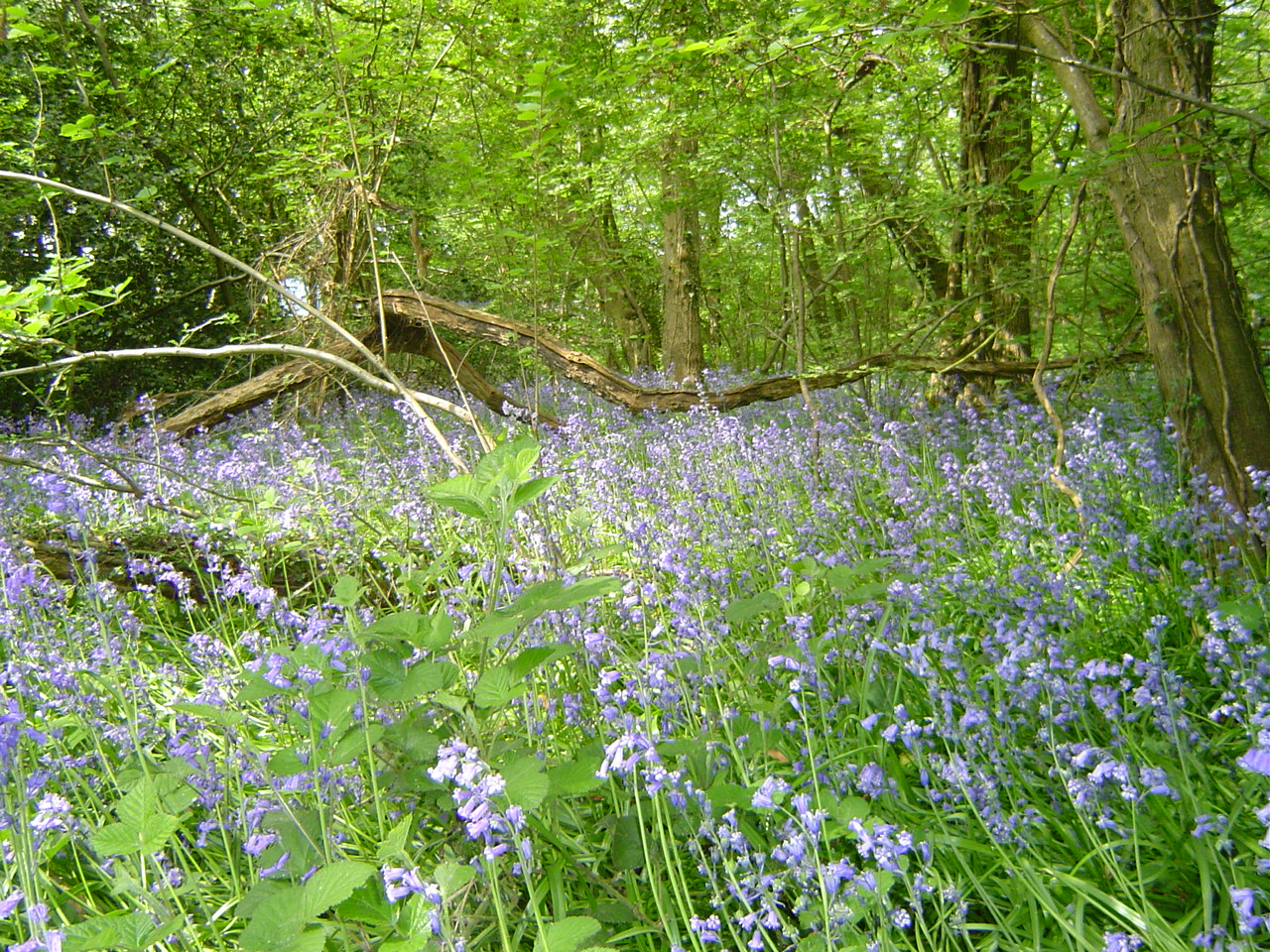 Bluebells at Martin Croft Brake, Ram Hill - next to Bitterwell Lake.